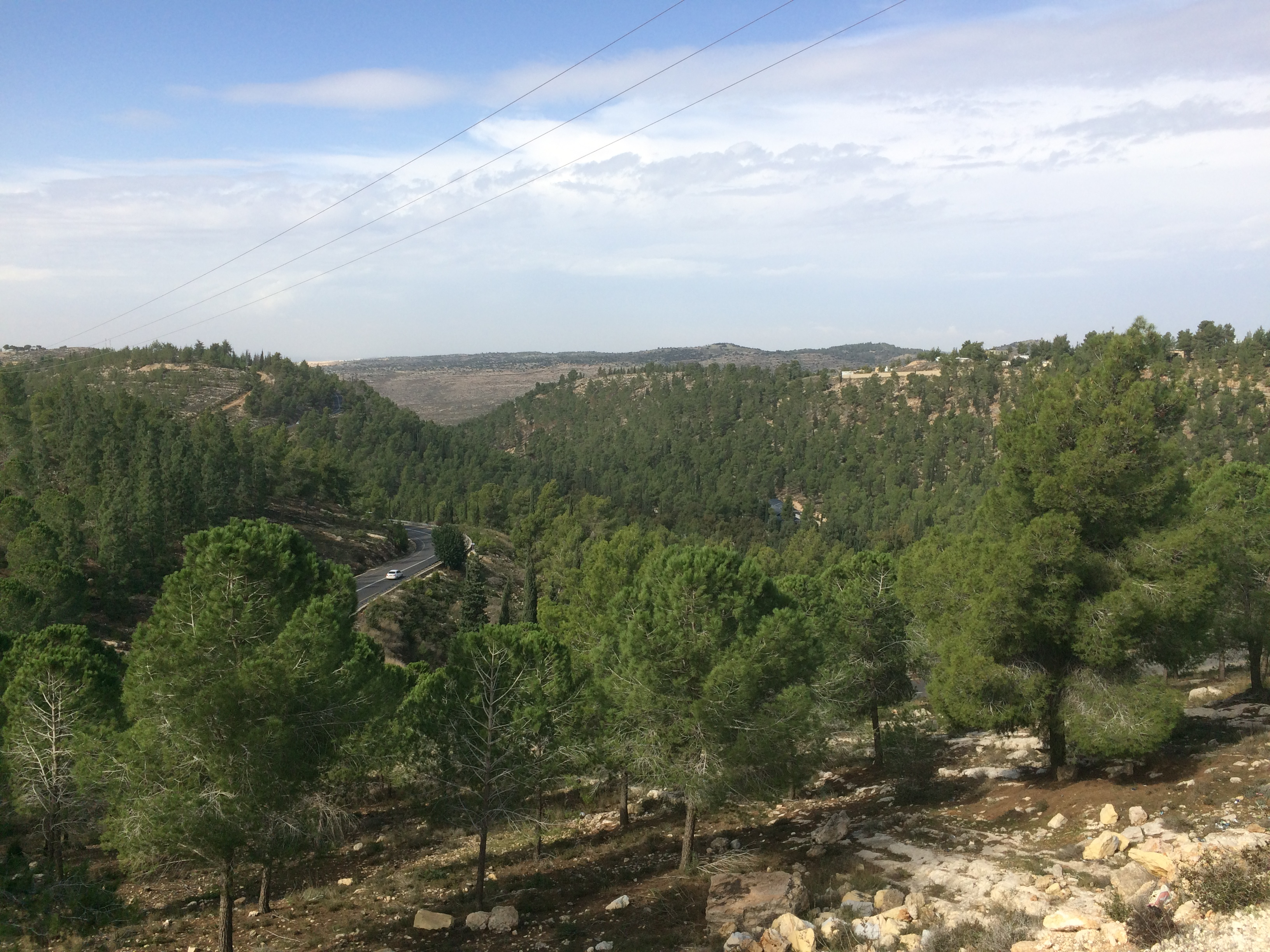 Gvaot, village in Gush Etzion. General view of the settlement and the surrounding forest from the Road 367, Nov. 22 2018